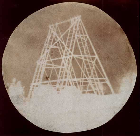 the very first photograph to be taken on glass. It was taken by Sir John Herschel in 1839, and shows his father's telescope in Slough, near London. (Science Museum, London).